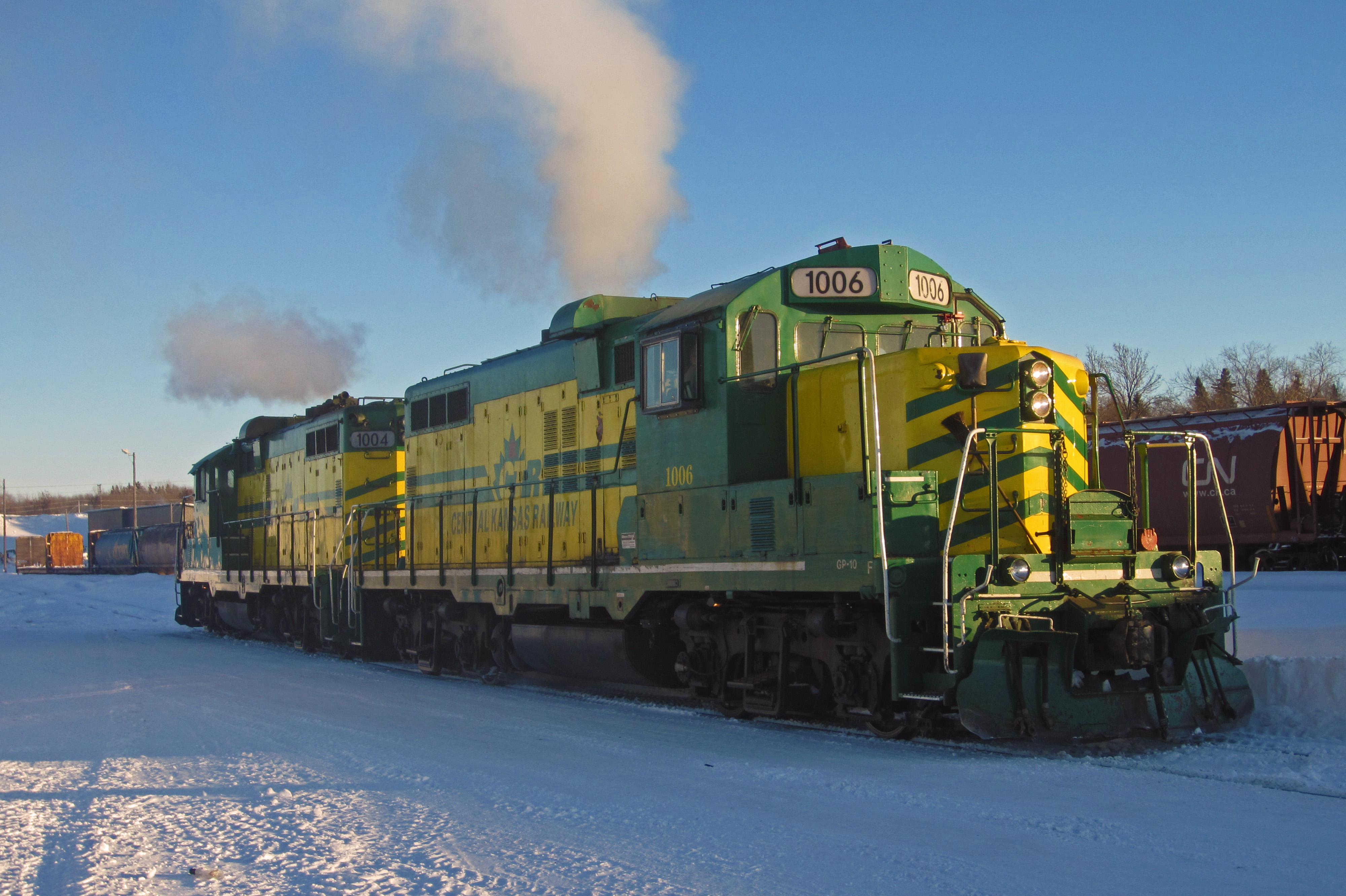 Example of the paint scheme of Carlton Trail's locomotives